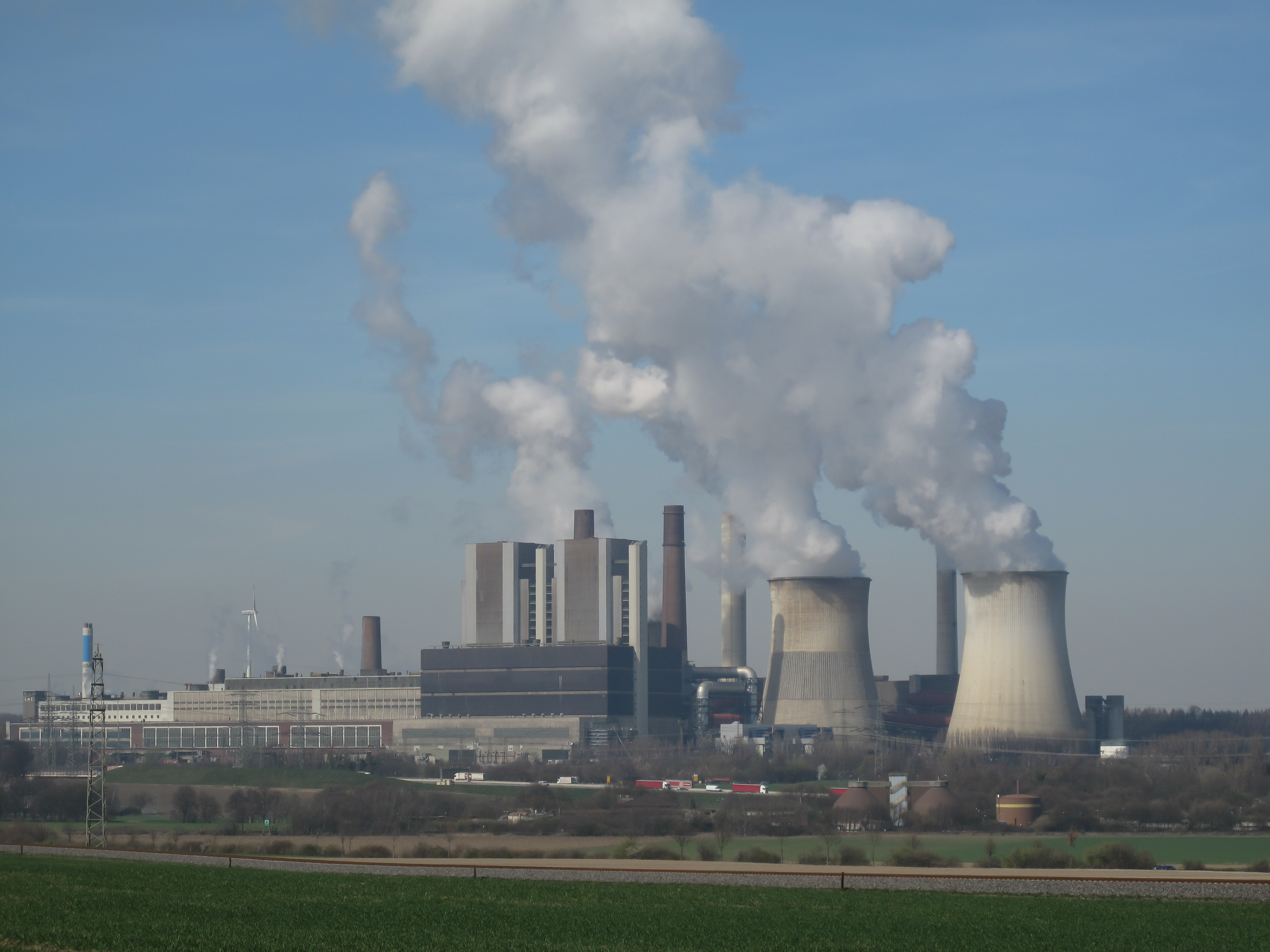 Weisweiler, power plant